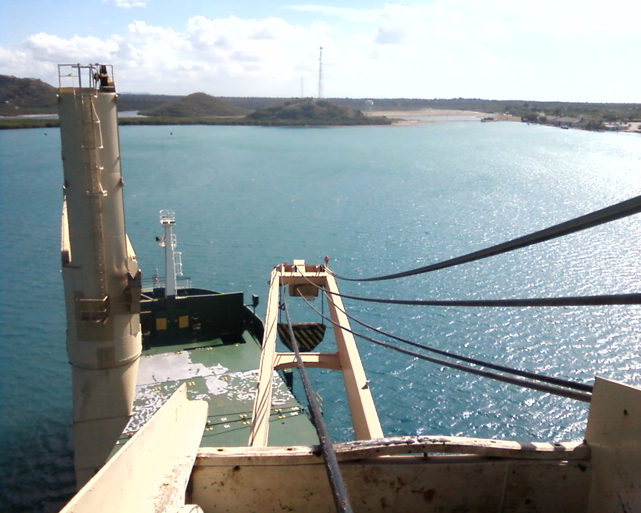 View from the top of a crane on a container ship. Motor Vessel TransAtlantic at anchor at Las Salinas, Dominican Republic. IMO Number: 9148520 Length: 101 m Beam: 16 m